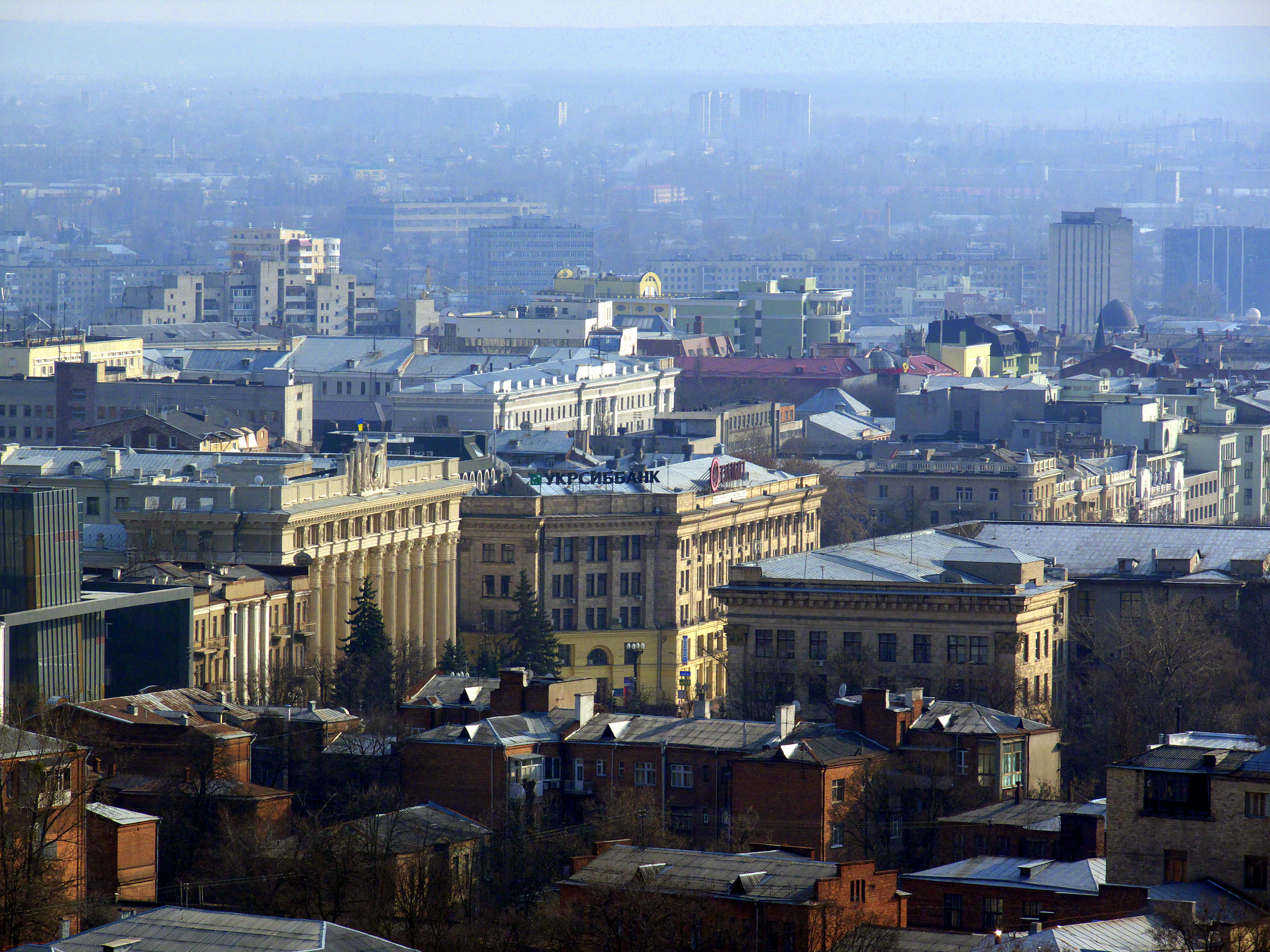 Kharkov Oblsovet and Sumskaya Street in Kharkov.